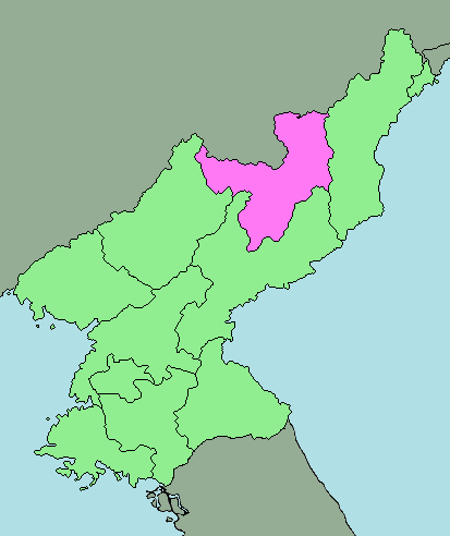 area map of Ryanggang Province